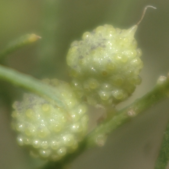 Fruits of Psoralea lanceolata or Psoralidium lanceolatum, lemon scurfpea, La Puebla, Santa Fe County, New Mexico.